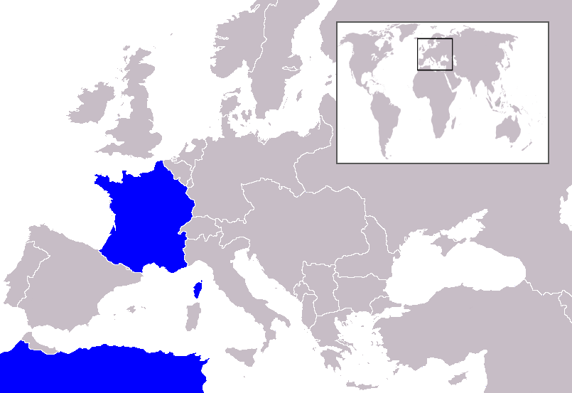 Modified from French_third_republic.PNG